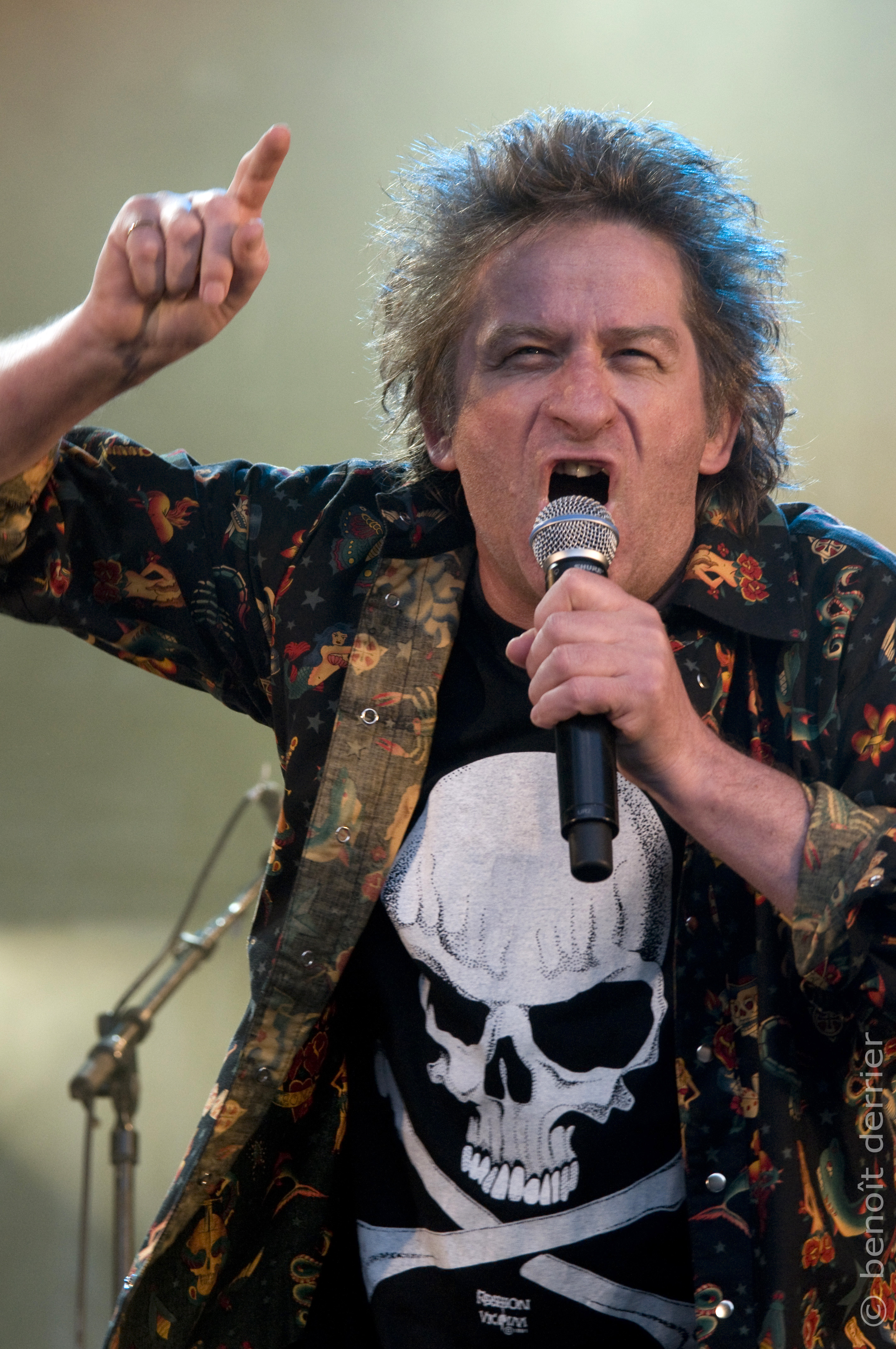 Paul Personne and Hubert-Félix Thiéfaine live at Aux Zarbs festival 2008 (Auxerre, France).